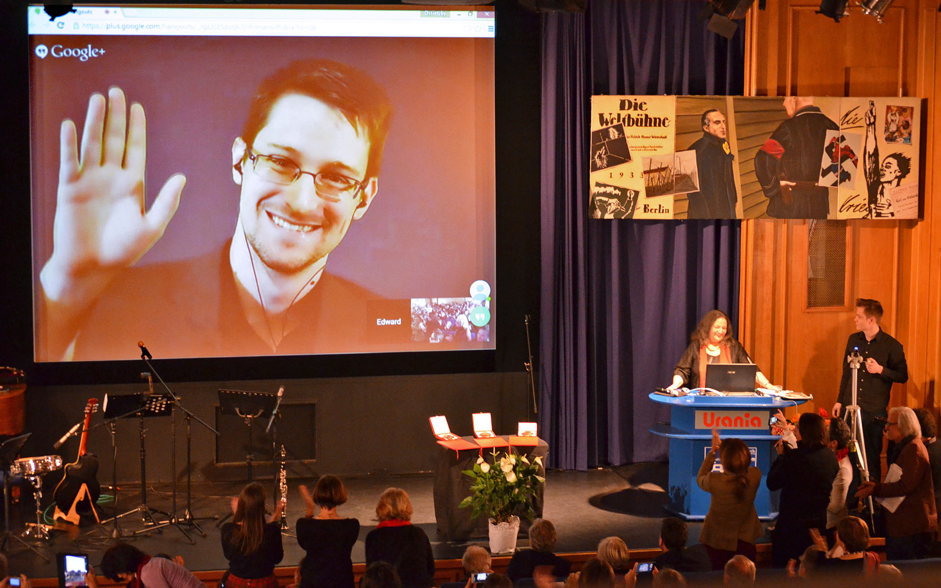 Ceremony for the conferment of the Carl von Ossietzky Medall 2014 to Edward Snowden, Laura Poitras and Glenn Greenwald. Start of the Google Hangout session.